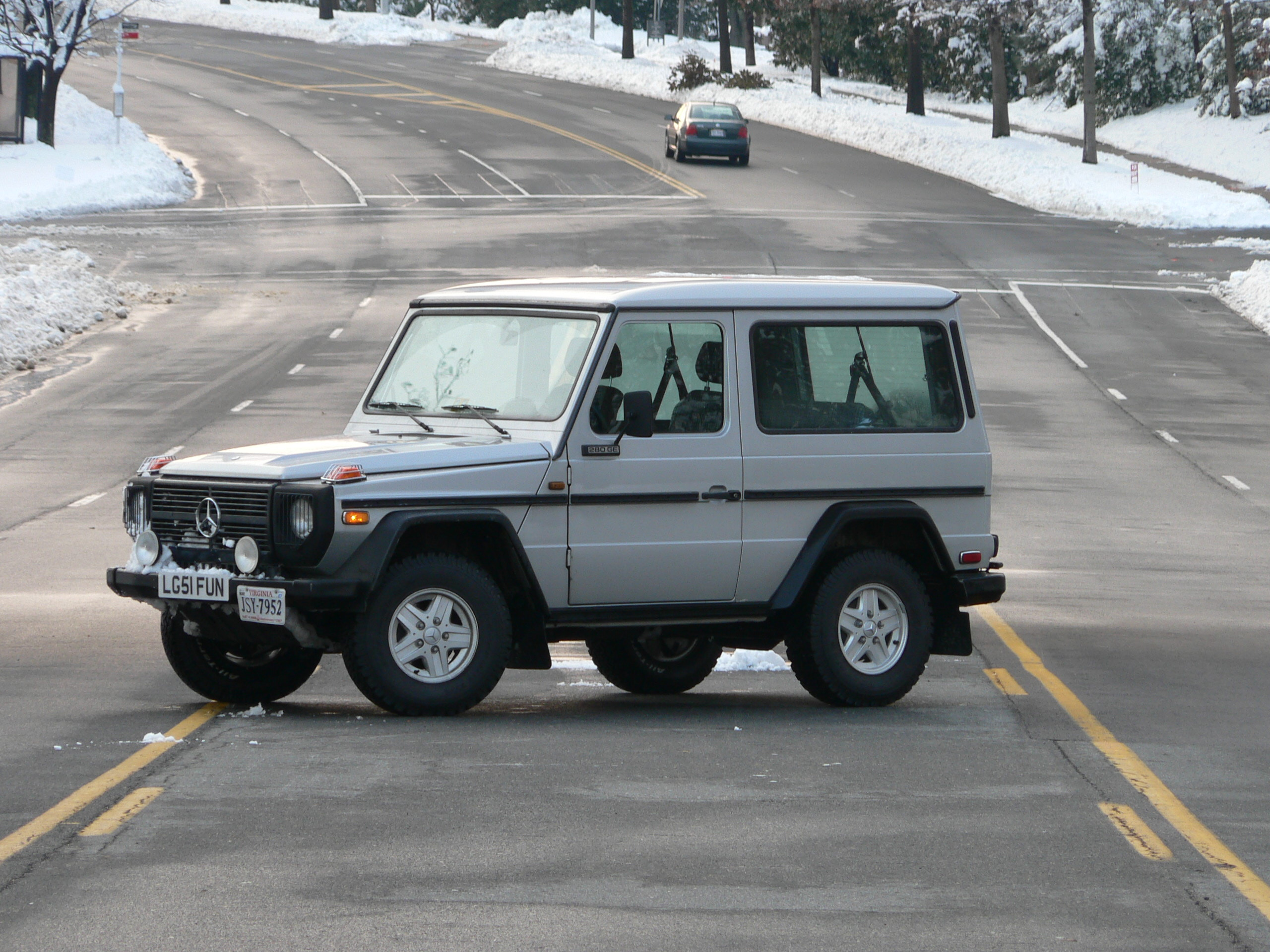 Mercedes-Benz 280 GE W460 in the United States